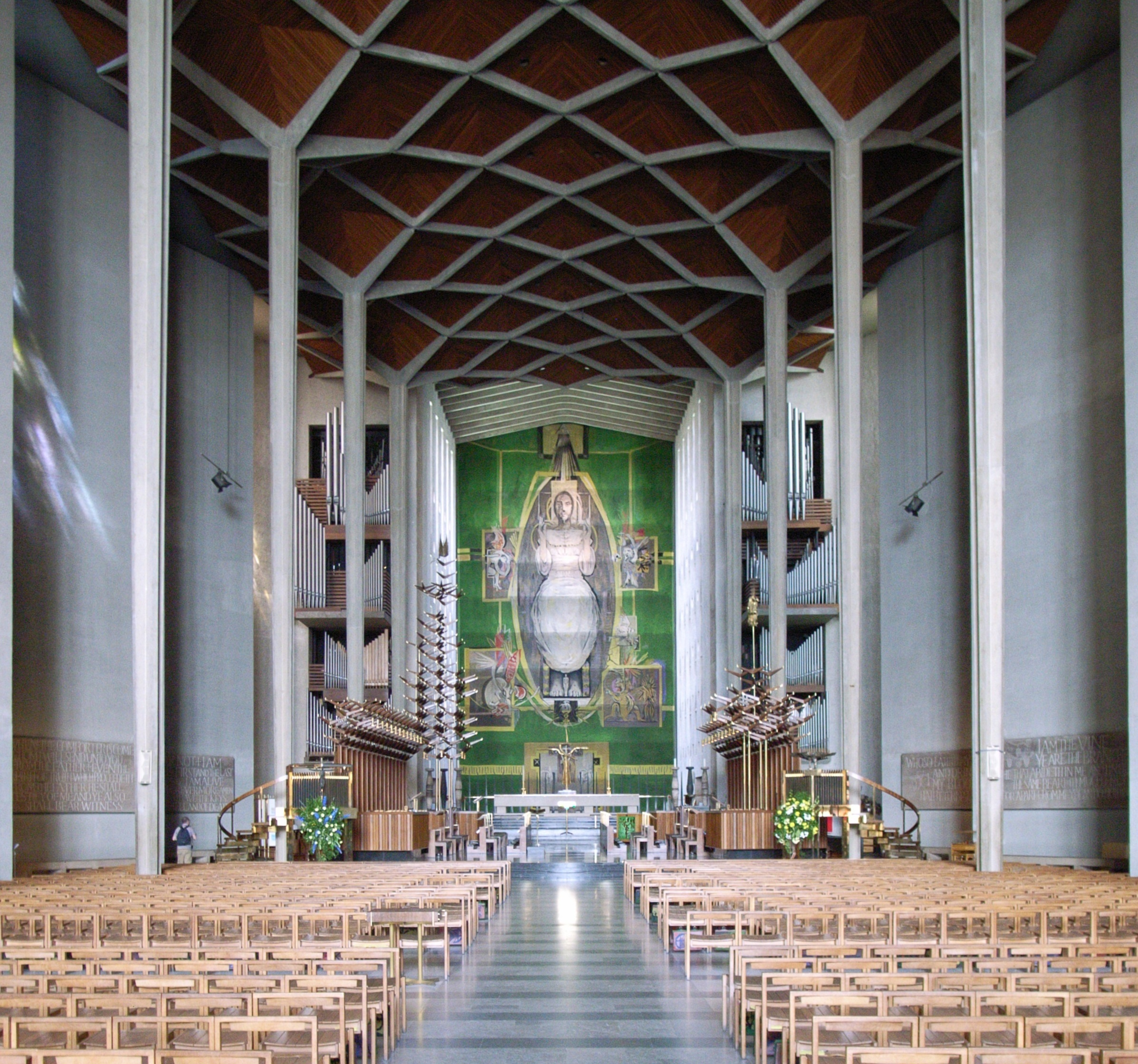 Graham Sutherland Tapestry at Coventry Cathedral, Coventry, West Midlands, England.